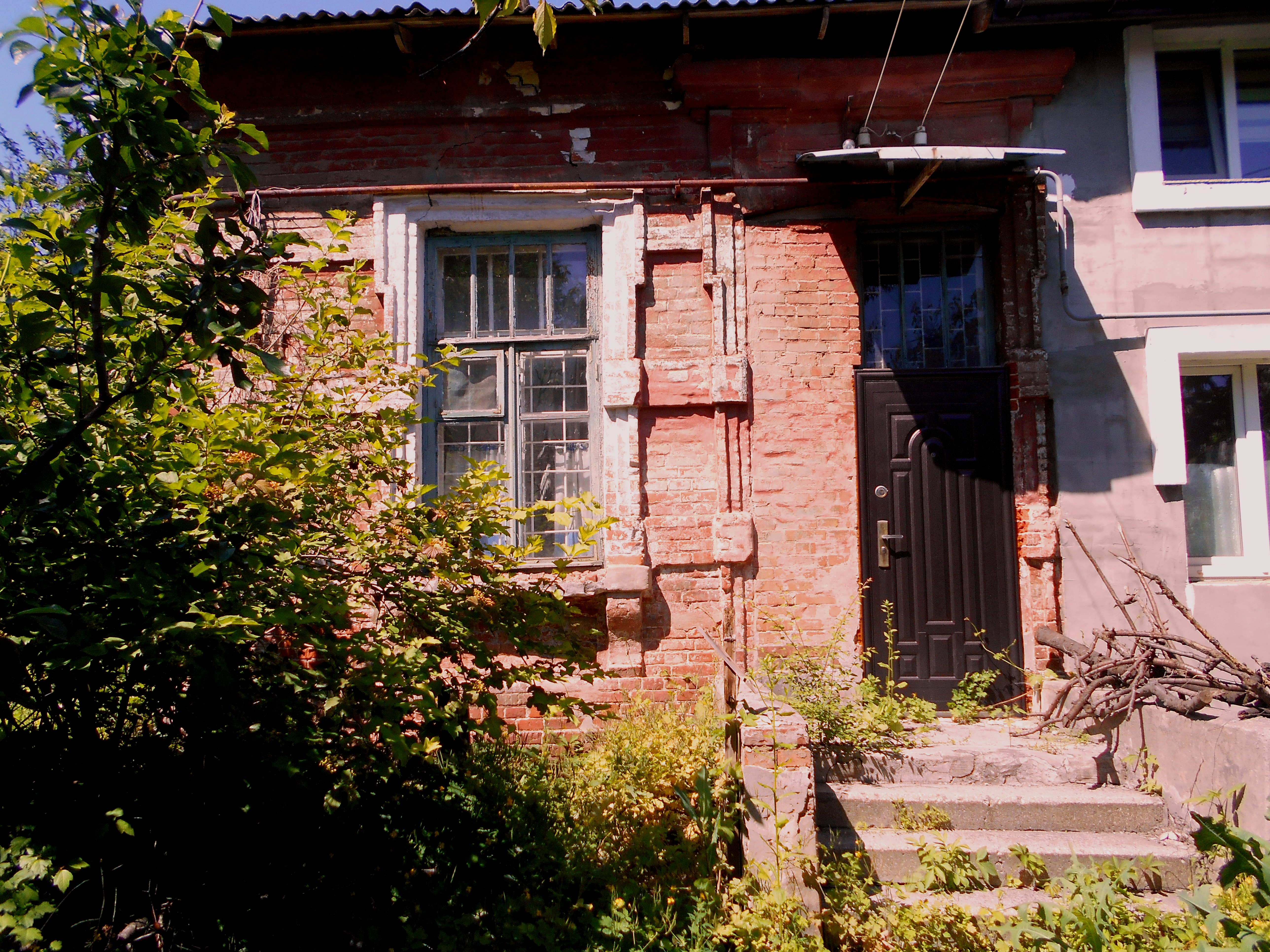 Административное помещение в колонии для малолетних. Сейчас многоквартирный барак.